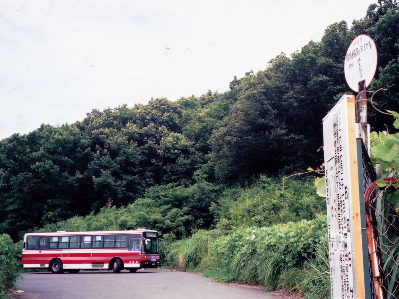 Odakyu Bus F740